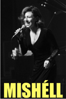 Irīna Rozenfelde